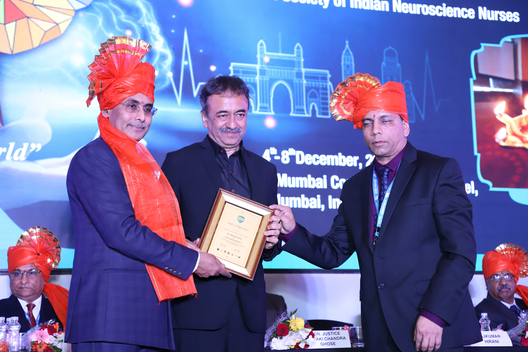 Raju Hirani at the 15th Asian Australasian Congress of Neurological Surgeons, 68th Annual Conference of The Neurological Society of India, and the International Meningioma Society Congress, in Mumbai